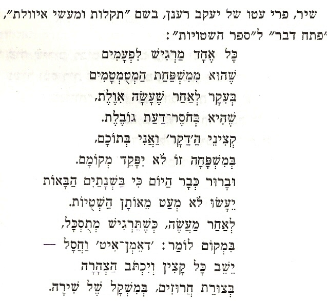 The opening song in INS Dakar fools book.